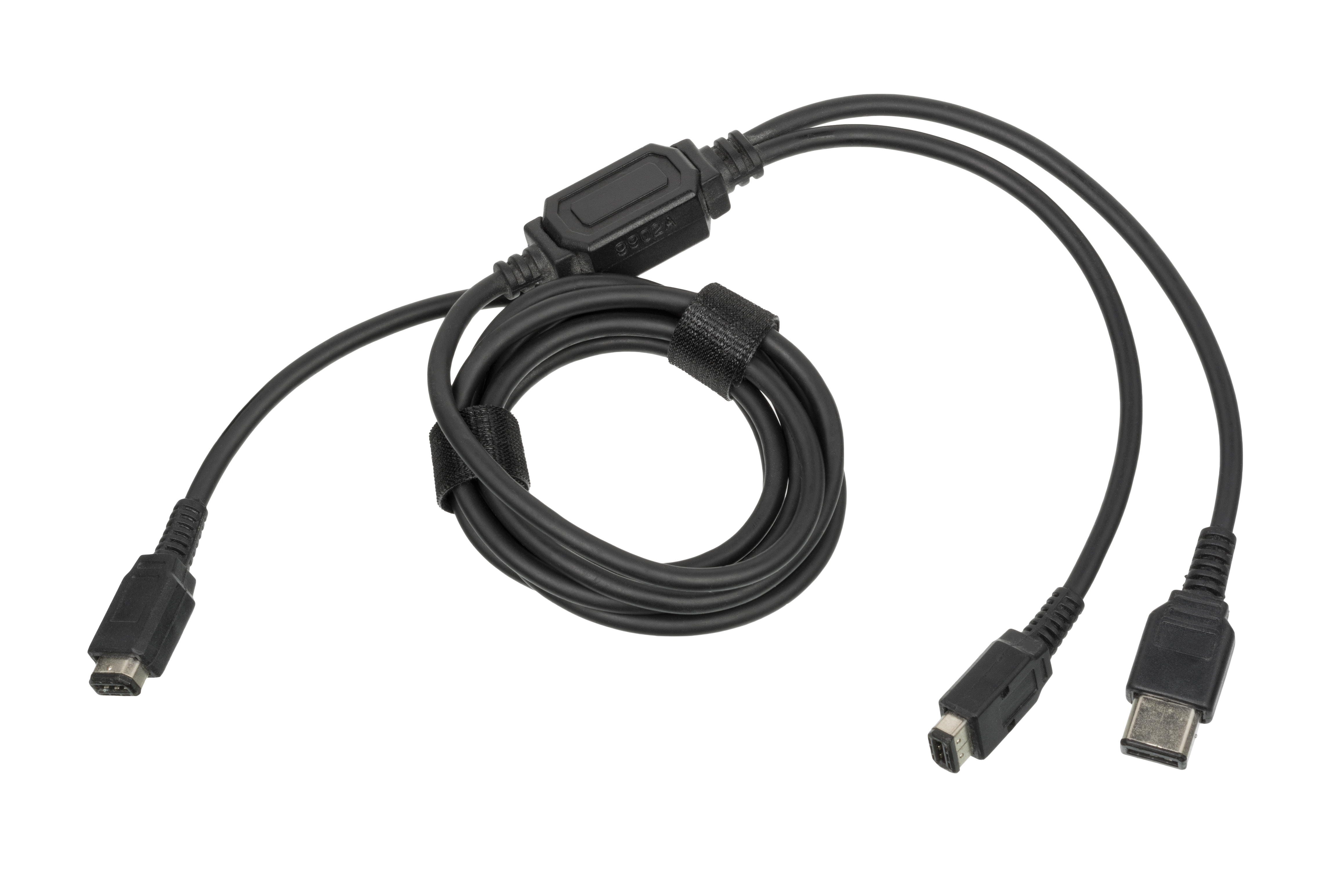 An official link cable for the Nintendo Game Boy handheld gaming console. This is the updated cable, as the link cable port on the original Game Boy was changed for later models. This cable features the newer plug on one side, and dual old/new plugs on the other for backwards compatibility.